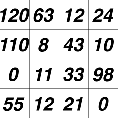 Example of 4x4 luma block